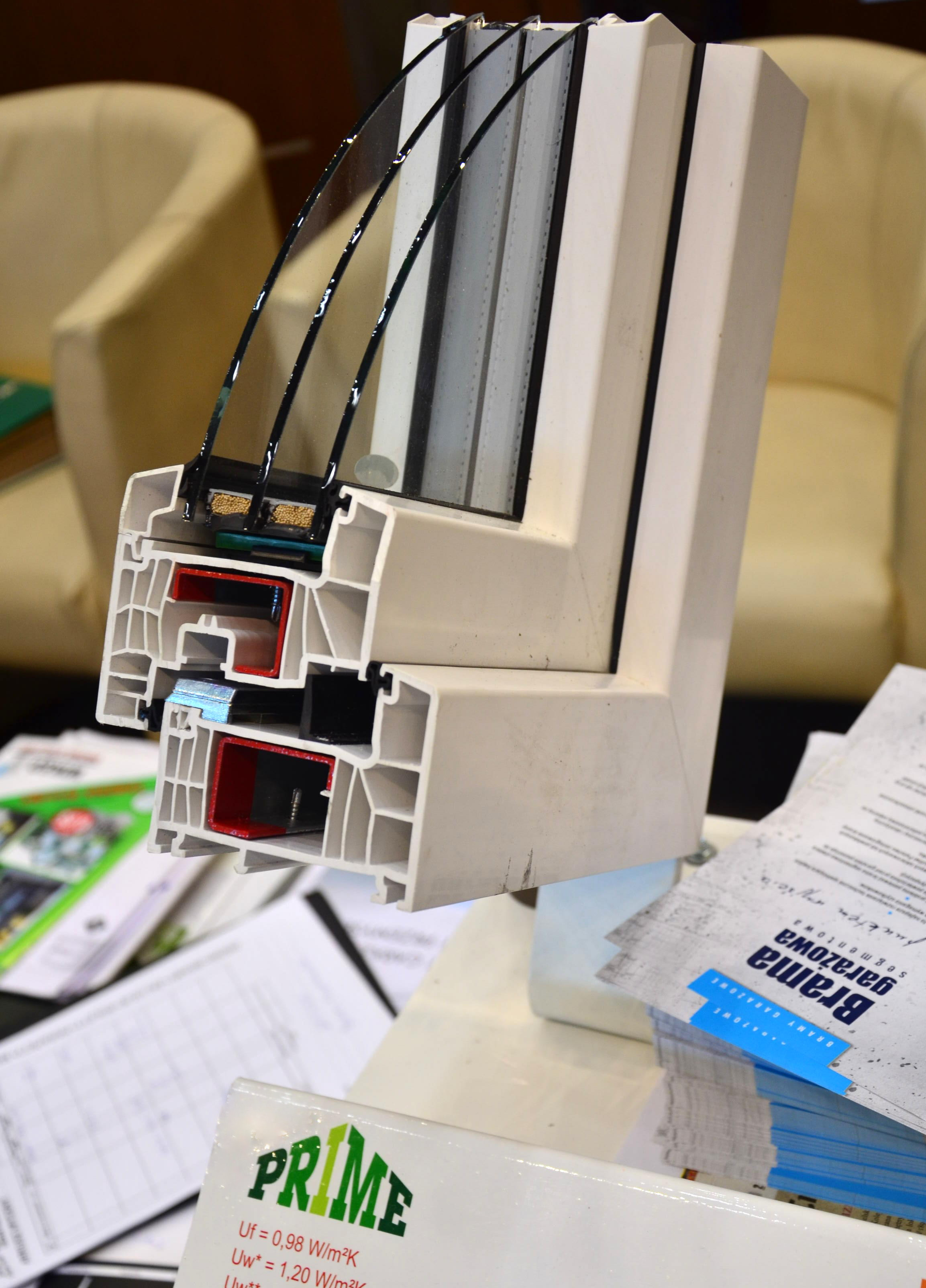 Vinyl window frames - MTB